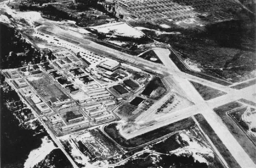 The Naval Air Station Atlanta, Georgia, USA, about 1947/48. (Now Peachtree-DeKalb Airport (PDK).)